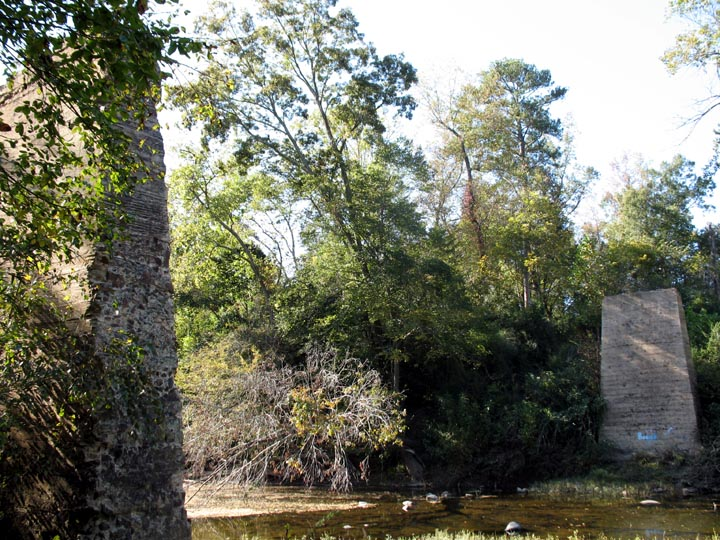 The two piers that remain at the Nectar Covered Bridge site in Alabama.